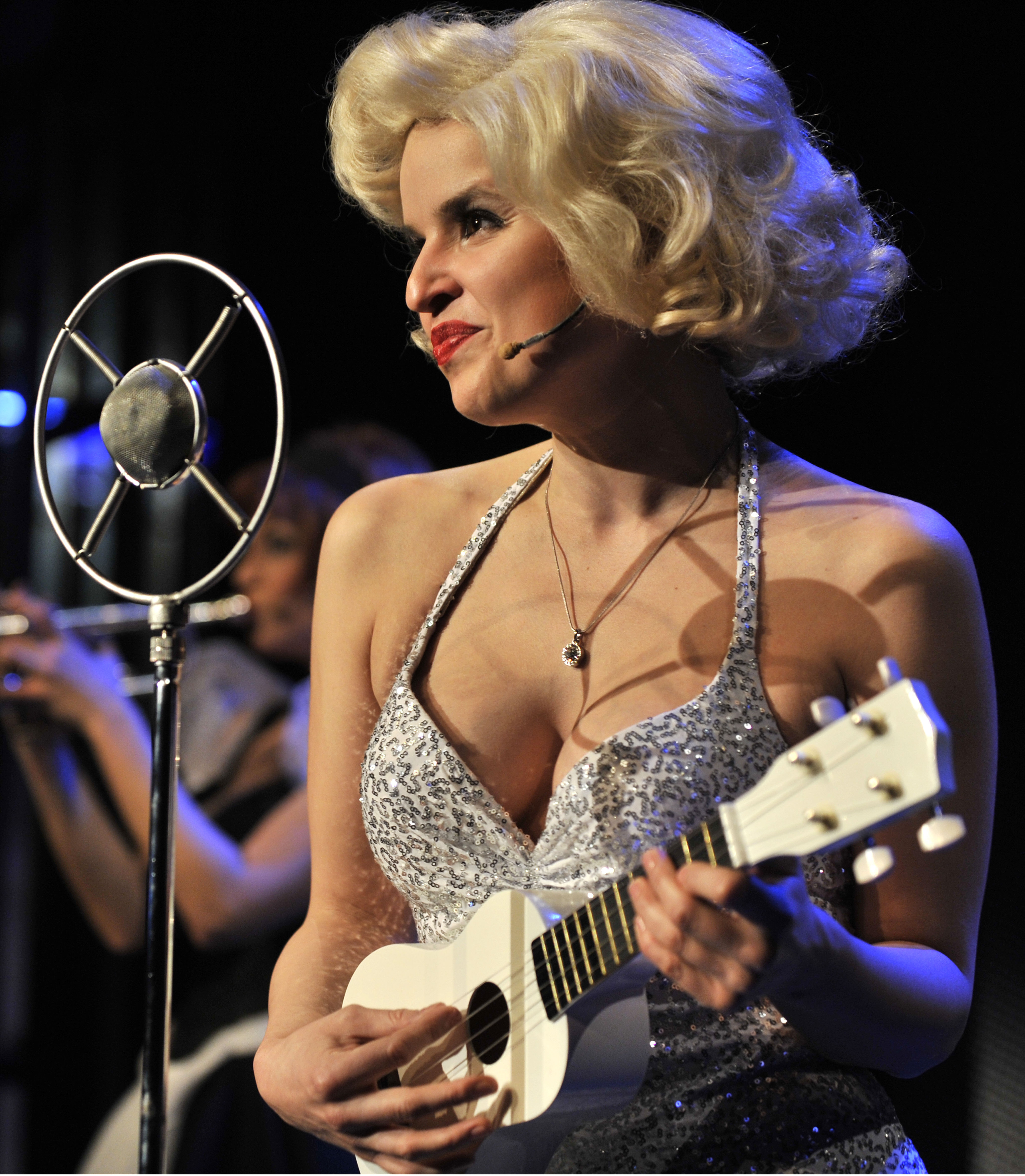 Sugar_(Some Like It Hot) at the Municipal Theatre, Brno (Mária Lalková)